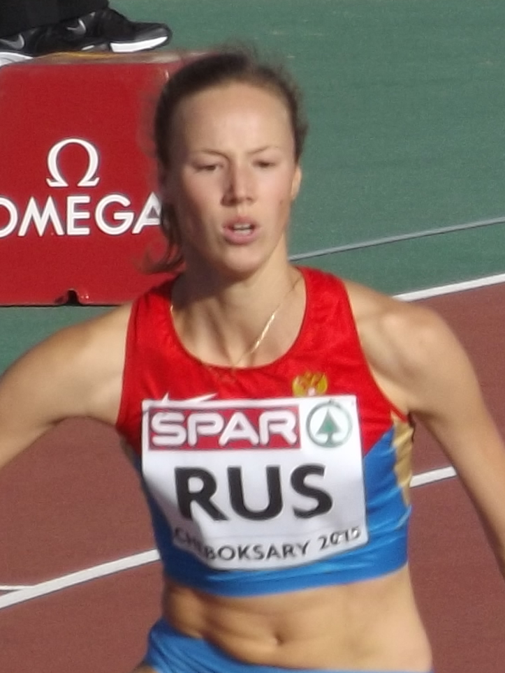 Russian Vera Rudakova in women 400 metres hurdles during 2015 European Team Championships